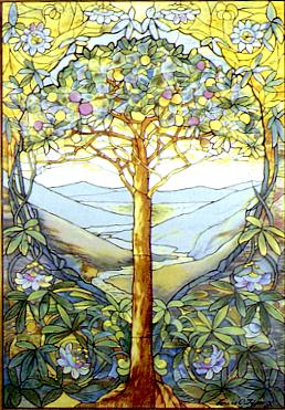 The tree of life, stained glass by Louis Comfort Tiffany (1848-1933).